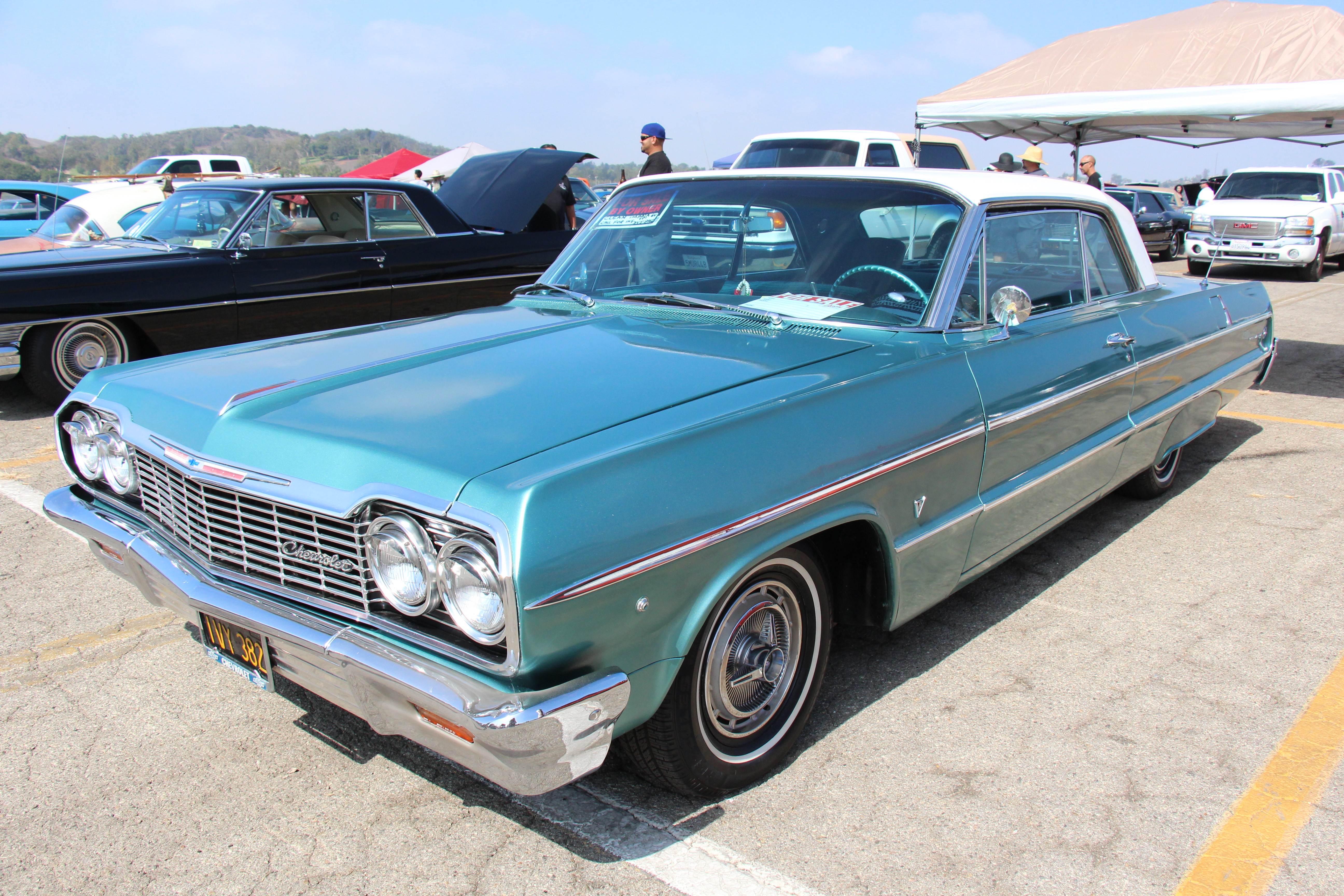 All sheetmetal, except the doors, was changed for 1962, a more conservative looking car. 1963 and 1964 were just a mild facelifts, slightly different grille and bumpers. 1964 a softer look. Base model was still the Biscayne, mid spec: Bel Air and top the Impala with triple round tail lights (double on Biscayne and Bel Air). also Super Sport (SS) option. The 1964 Chevrolet was available in Sedan, 2 and 4 door Hardtop Coupes and Wagon. Engines; 235 6 cyl, 283, 327 and as this car has; 409 V8s. Chevrolets were also produced in Australia from 1926-68, built by General Motors Holden using modified American bodies. In 1964, only the 4 door Chevrolet sedan was sold there, along side the 4 door Pontiac Parisienne Sedan